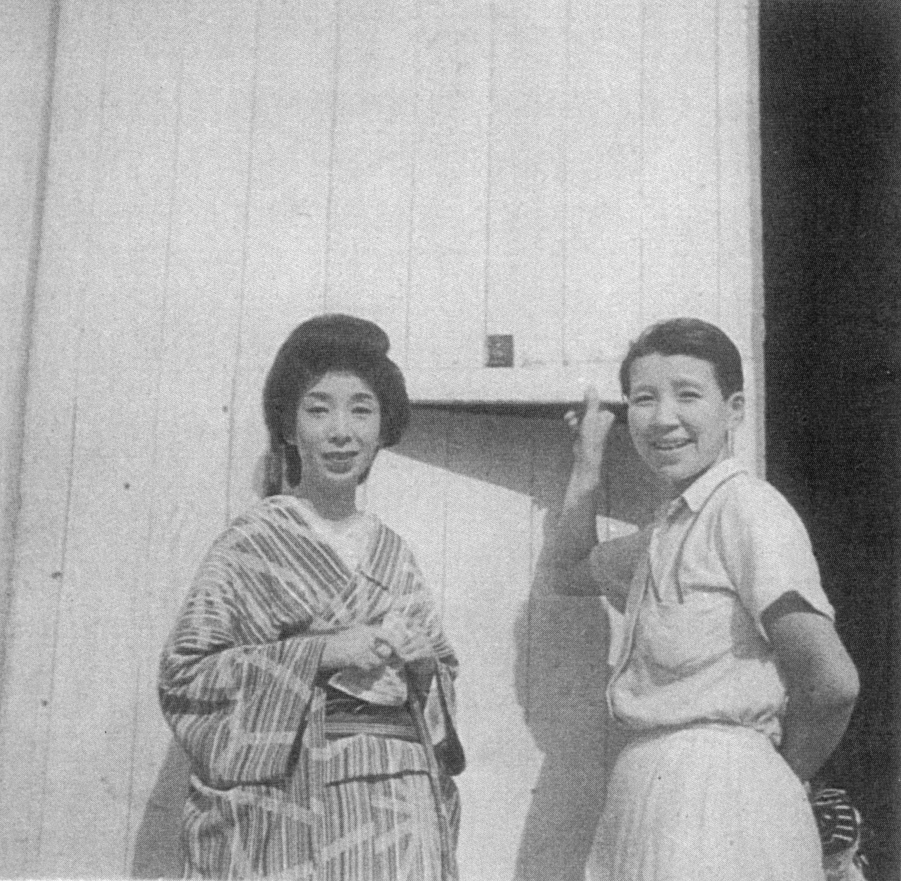 Yōko Umemura (left) and Tazuko Sakane (right) - Circa 1936